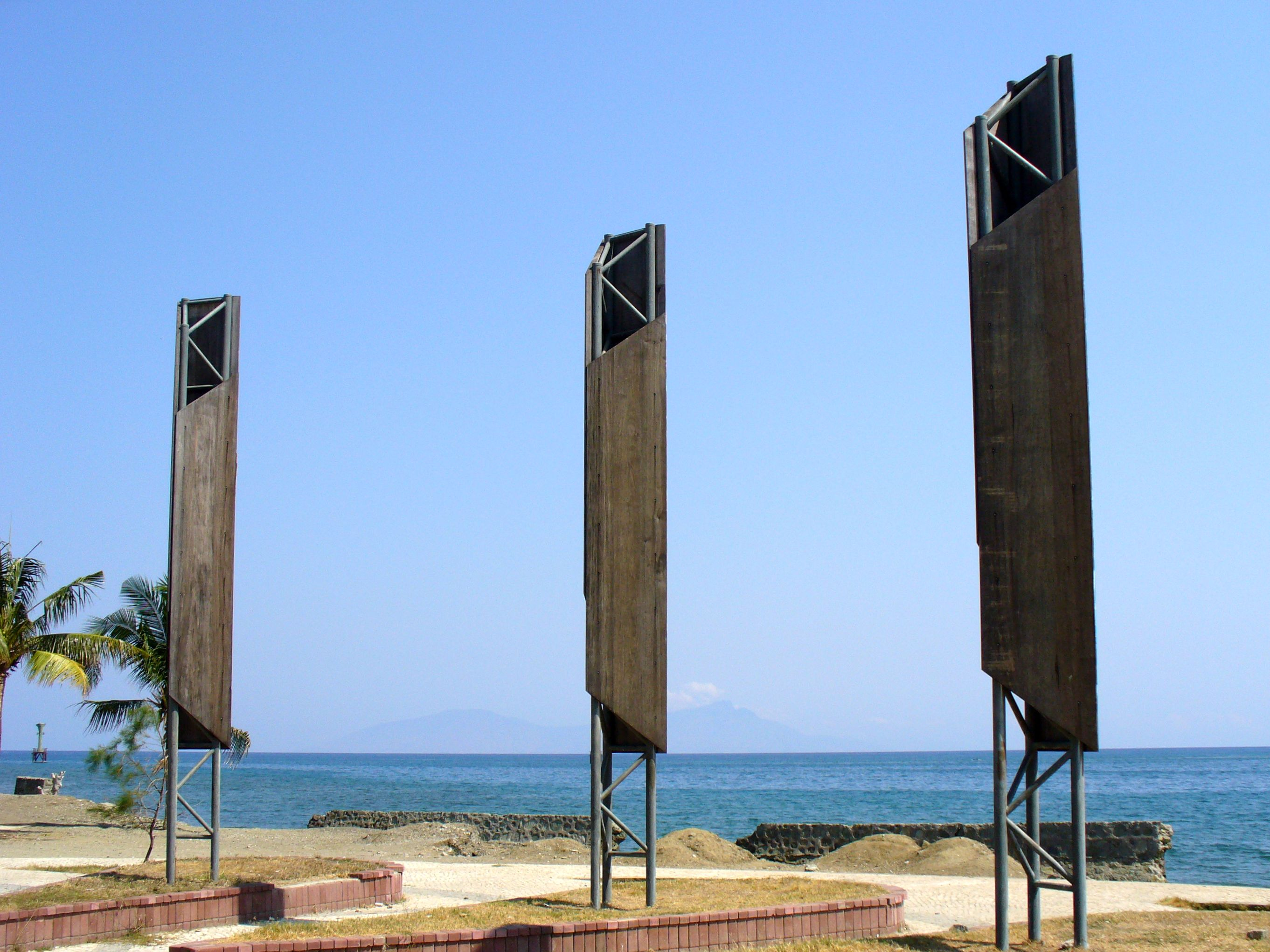 Regions of Timor Monument, Dili, East Timor